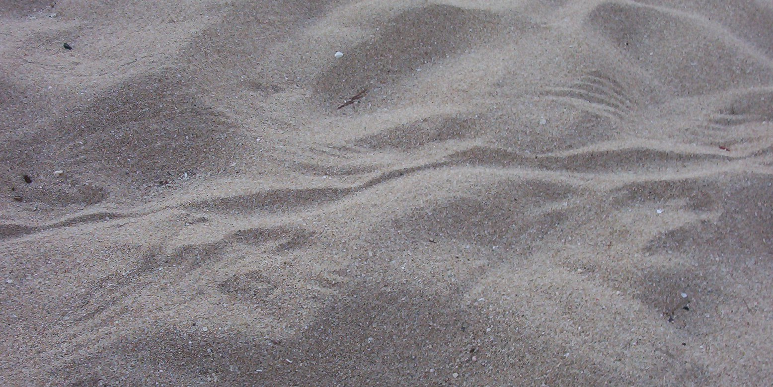 Photo I took on Brampton Island, Queensland, Australia, in December 2005.